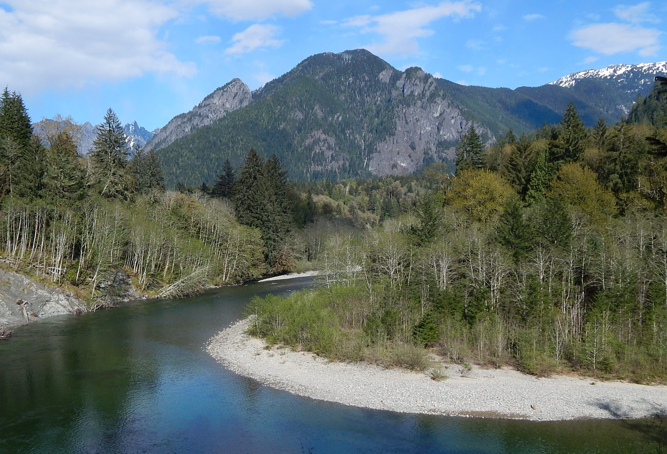 The Pulpit with Middle Fork Snoqualmie River